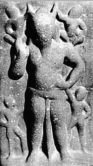 Horned god Nejamesa (or, Naigamesa) of the Indian sub-religion Kaumaram. 1st-3rd century CE: "Naigamesa was a popular deity in the Kushana period and we have at least eight figures of this god from Mathura assignable to c. 1st to 3rd century A.D. (GMM., E. 1, 15.909, 15, 1001, 15. 1046, 15. 1115, 34.2402, 34. 2547, SML., J 626, etc)" in (in English) (1986) Mātr̥kās, Mothers in Kuṣāṇa Art, Kanak Publications, p. 41 The deity Naigamesa is apparently the same as Nejamesa mentioned in the Khilas of the Rig-Veda as a son-granting deity. Tasks, Methods and Results in the Study of the Indus Script - No. 2, 1975 - by Asko Parpola